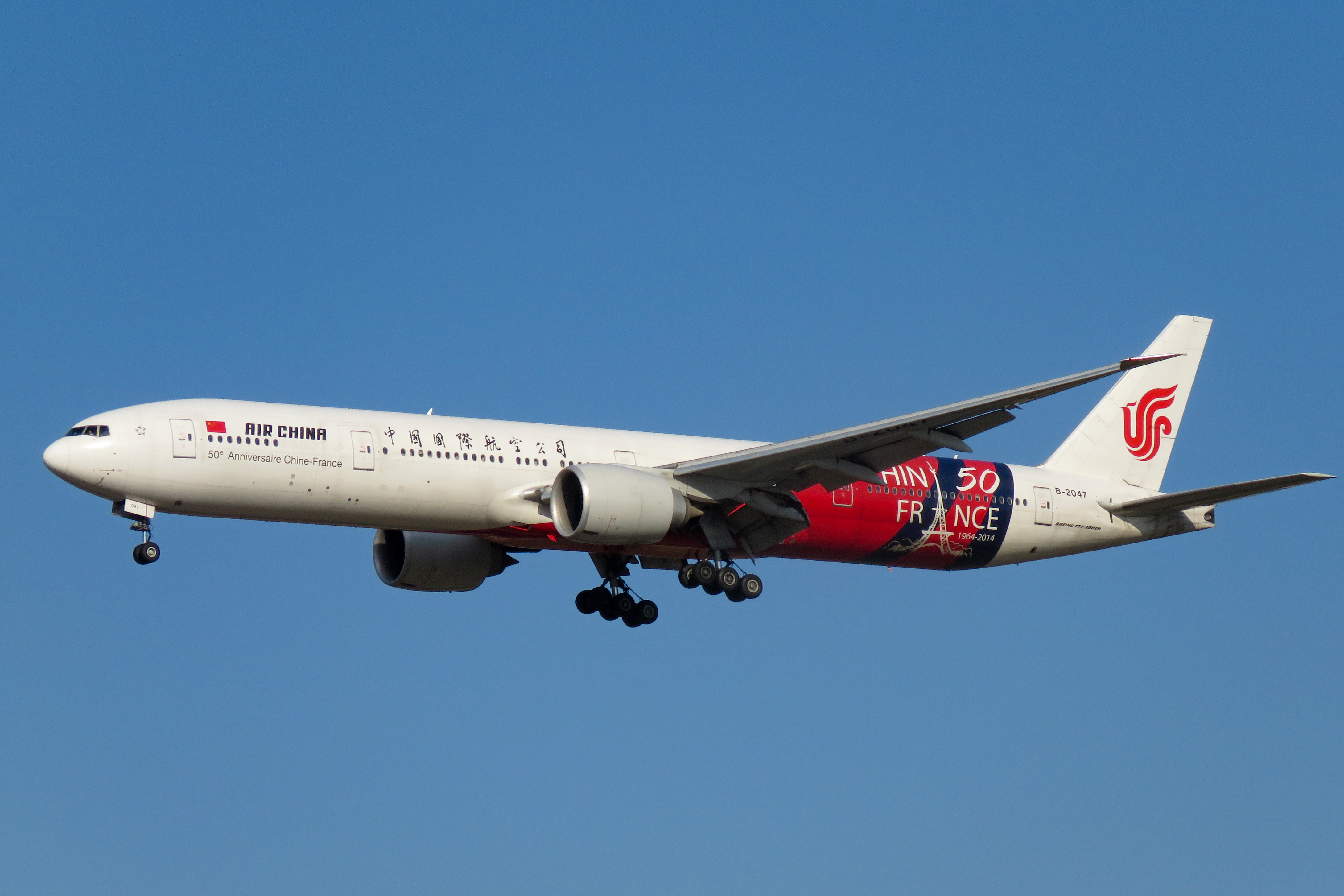 Air China 988 from Los Angeles, still carrying the "50e Anniversaire Chine-France" livery.